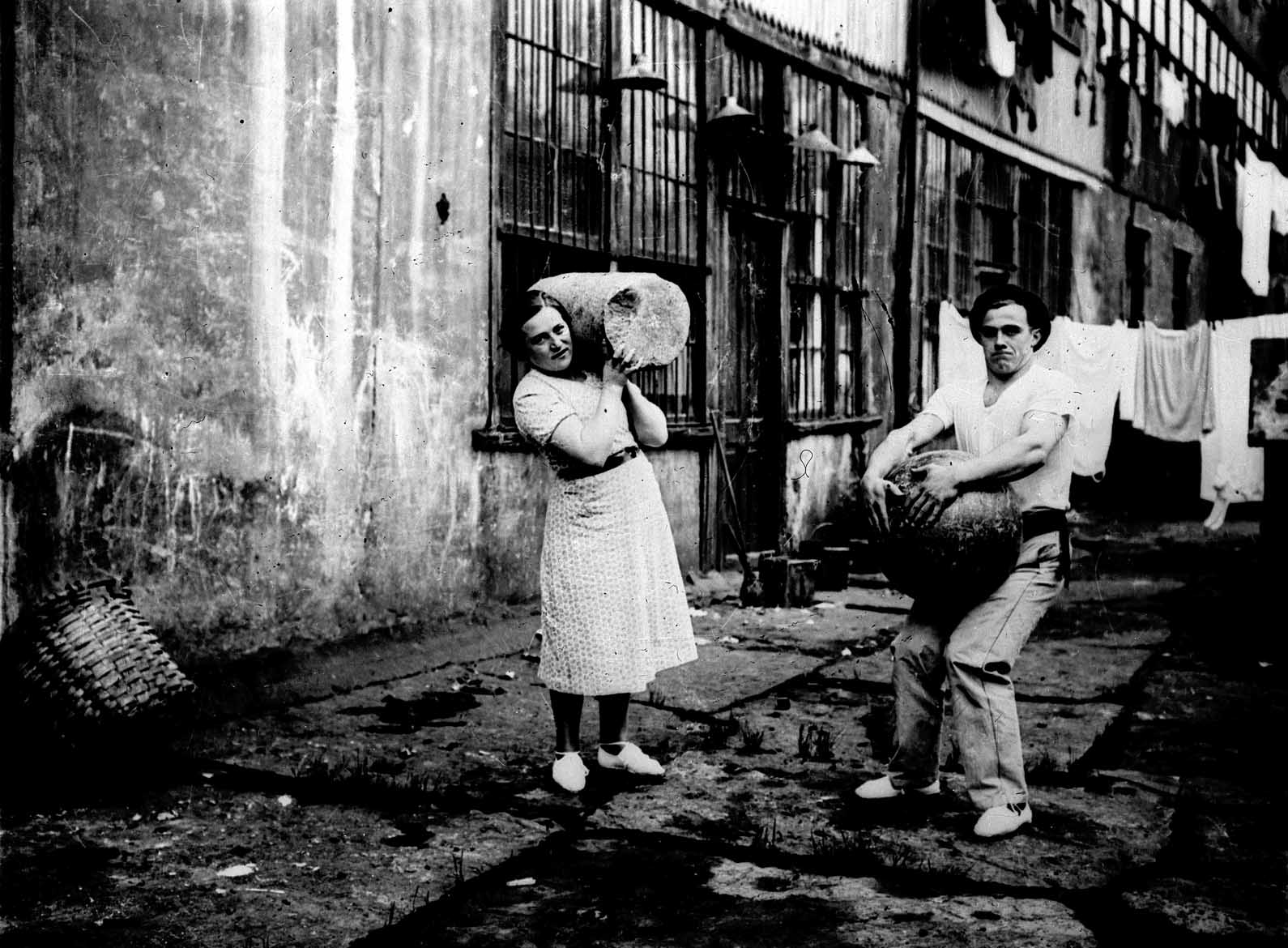 The harrijasotzaileak (stone-lifters) Damasa Agirregabiria and Errekartetxo (Santos Iriarte)